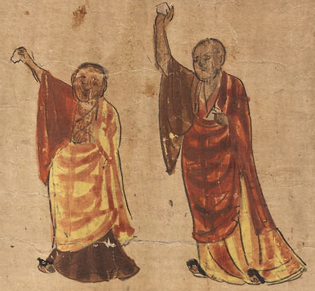 Monks in Dunhuang Manuscript